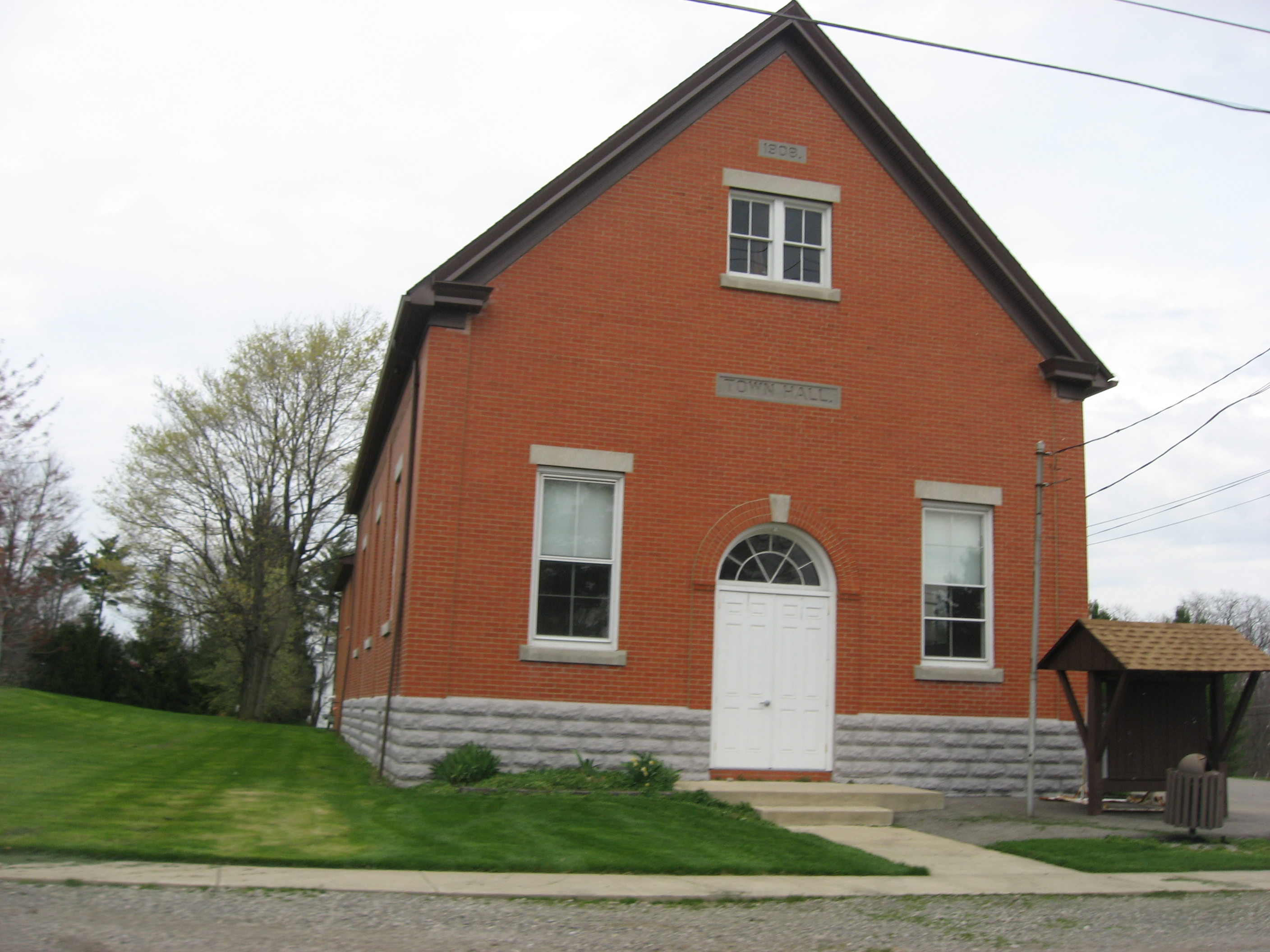 Front of the Huntsburg Township Hall, located on the northwestern corner of the junction of U.S. Route 322 and State Route 528 at Huntsburg in Geauga County, Ohio, United States.